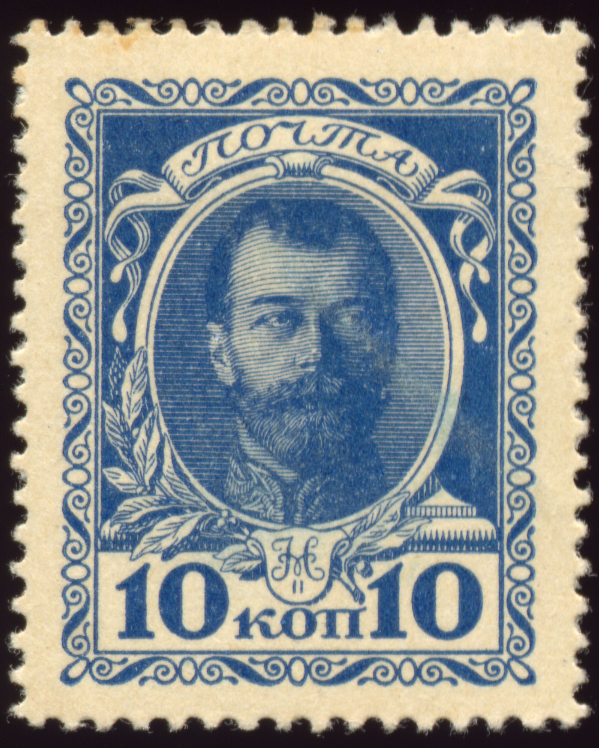 Russian Empire stamp, 1915, 10 kopecks, Nicholas II of Russia, obverse. Stamp is courtesy of collector, who wants to remain anonymous. Thank you!